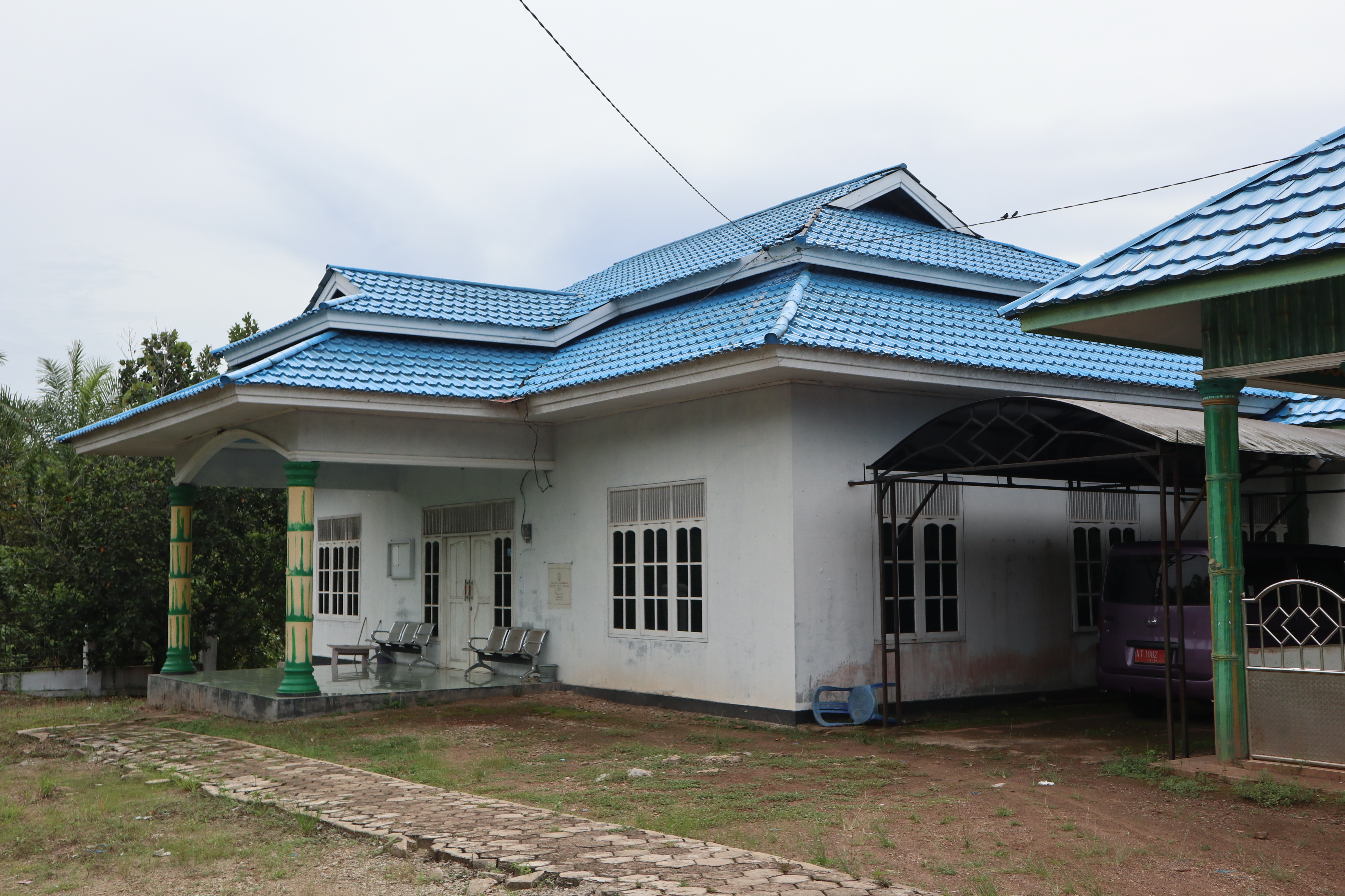 Lempesu village office in Paser Belengkong subdistrict, Paser Regency, East Kalimantan, Indonesia.